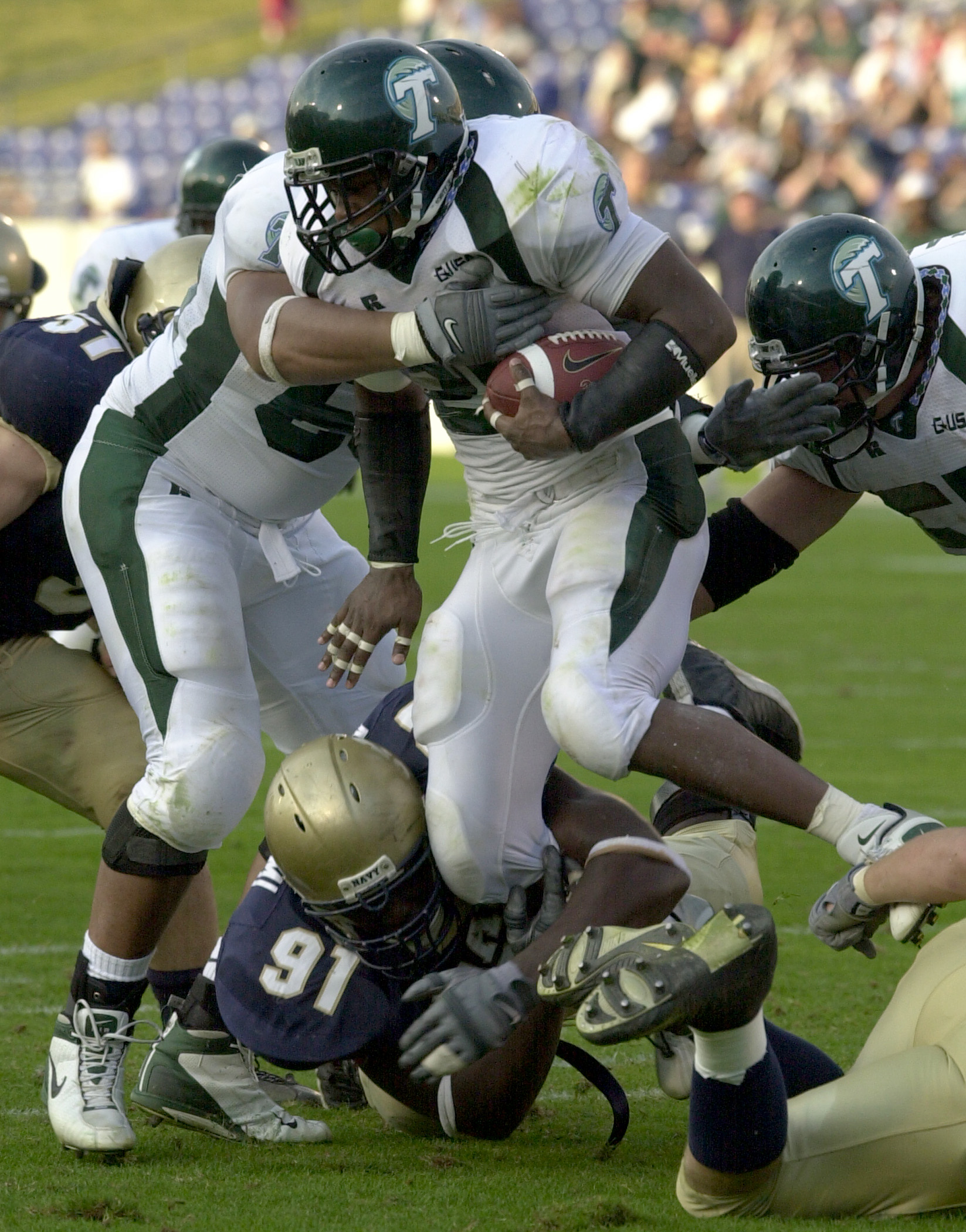 Tulane running back Mewelde Moore is wrapped up by Navy nose guard Babatunde Akingbemi during Navy's 35-17 victory over Tulane